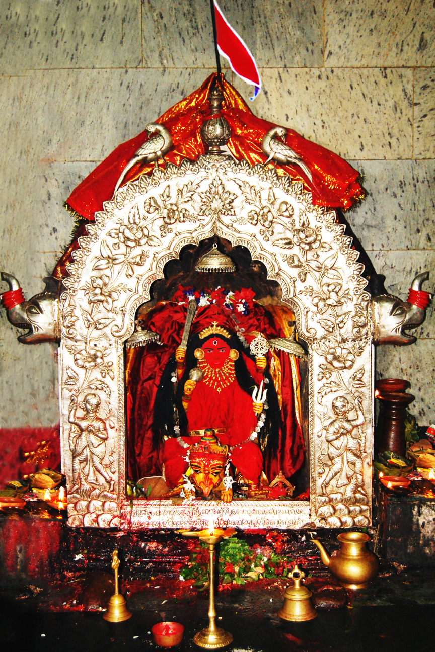 Lankeswati temple is one of the most popular temples of Sonepur District, Odisha. The main female deity is Lankeswari Thakurani.